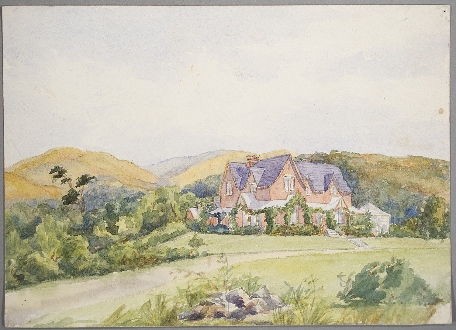 Watercolour on paper. Landscape, Holnicote House, Mt Peel homestead and gardens.